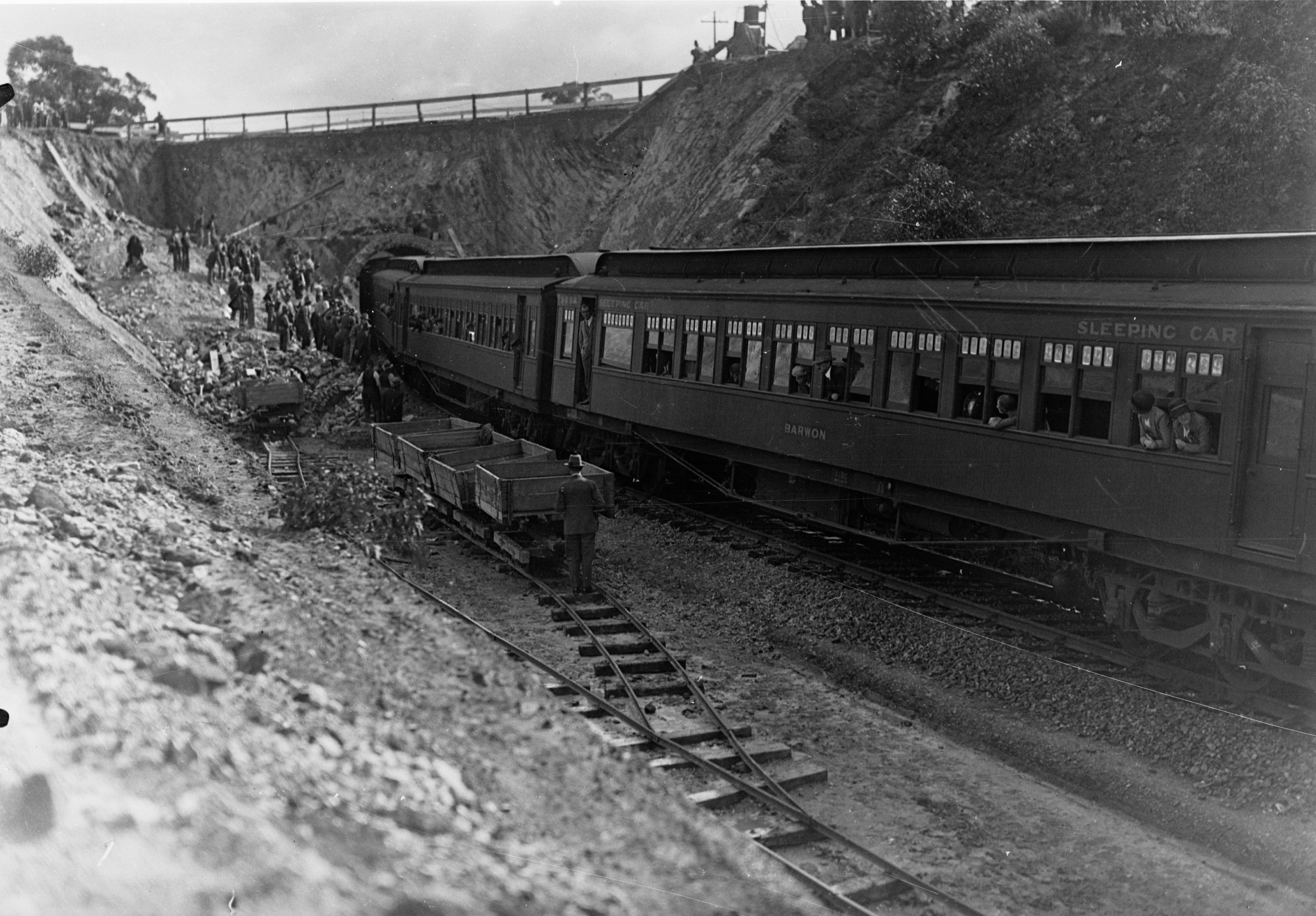 This image would have been taken after the events of January 31 1928. The train is possibly a train coming from either Victoria or New South Wales. One of the greatest tragedies in South Australian railway history occurred on the night of 31 January 1928, when six men died, buried in a land slide while demolishing the tunnel to make way for Overway Bridge, on Main Road Belair. The bridge is near the present day Pinera Station, previously known as Overway Bridge Station. Conditions were difficult for rescuers who worked through the wet and stormy night, in the light of hurricane lamps and car headlights. Robert Lafferty of Coromandel Valley was one of the men killed. The accident is reported in The Advertiser 2 February 1929; "There was a fog which clothed the scene with a mantle of softness---" The injured man "chatted with the ambulance men but seemed unable to say anything about his sensations during his terrible experience. However his injuries were so serious that he died in the hospital at 4.10am" J. Callen, Then & Before - Glimpses of the Belair Line in the Age of Steam 1883-1969, self published, Adelaide, 2002 Refer to p. 36 "Then and Before - Glimpses of the Belair Line in the Age of Steam 1883-1969" Janet Callen.